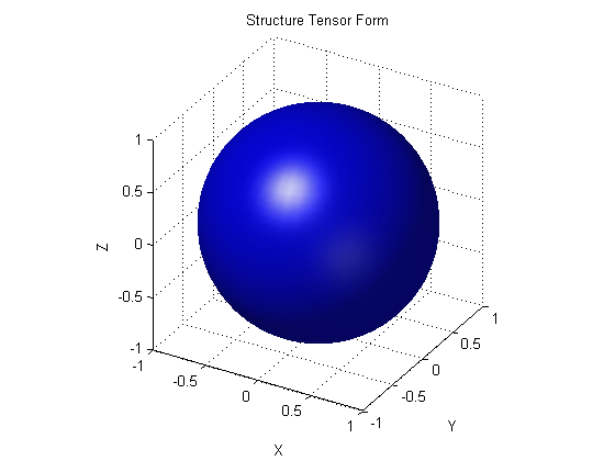 A structure tensor ellipsoid